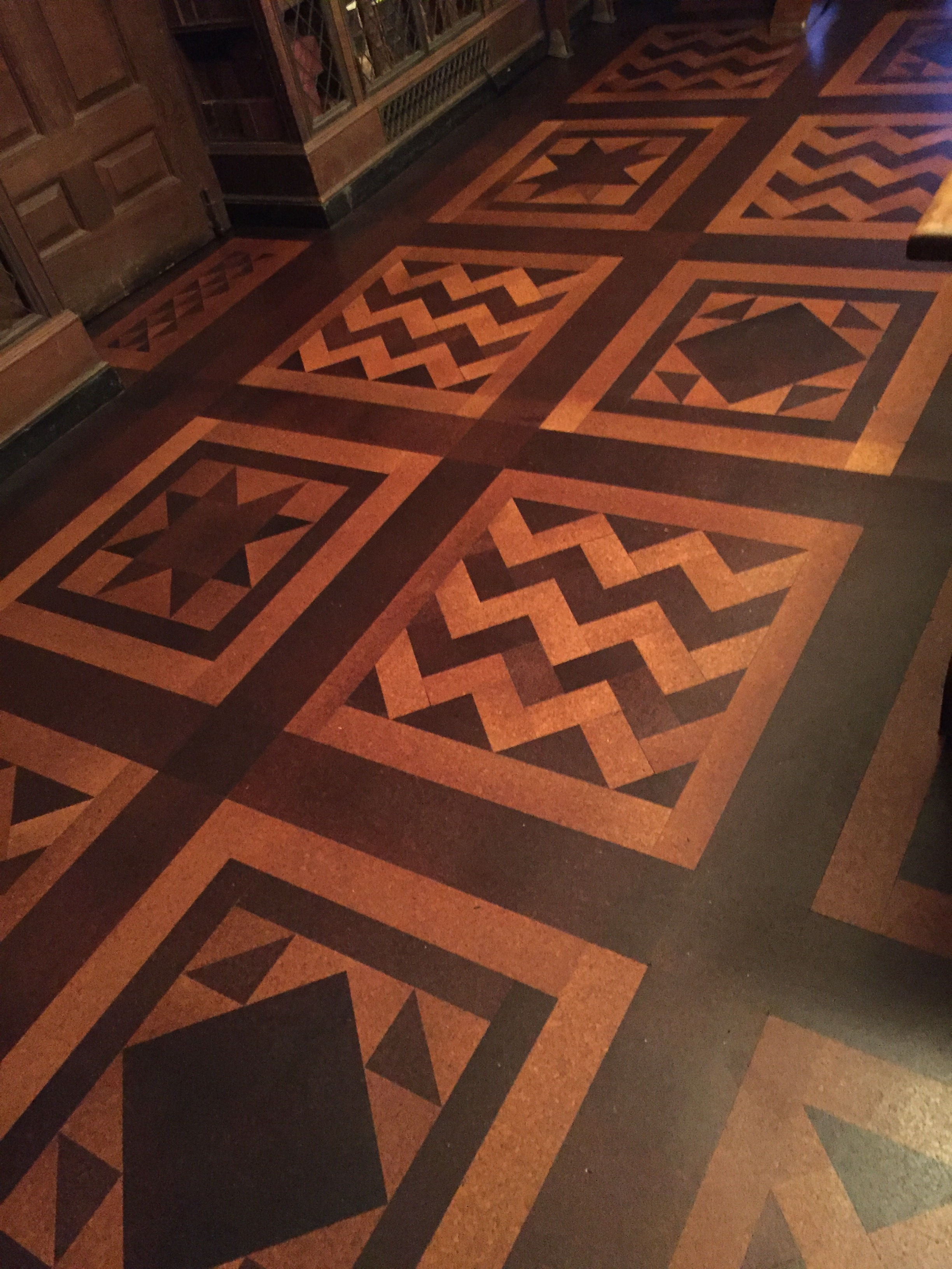 Rare Book Reading Room cork floor at New York Academy of Medicine Tour